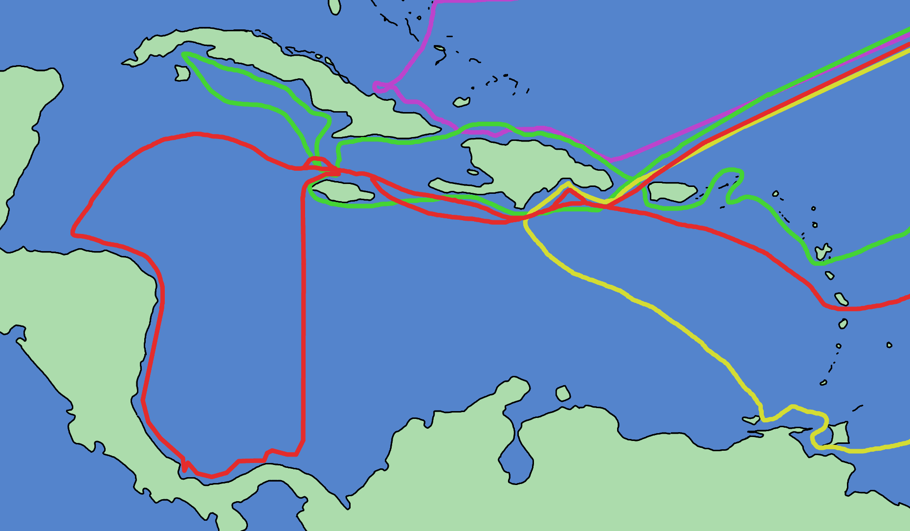 Map of Columbus voyages in the Caribbean without text. Legend: 1st voyage - purple 2nd voyage - green 3rd voyage - yellow 4th voyage - red